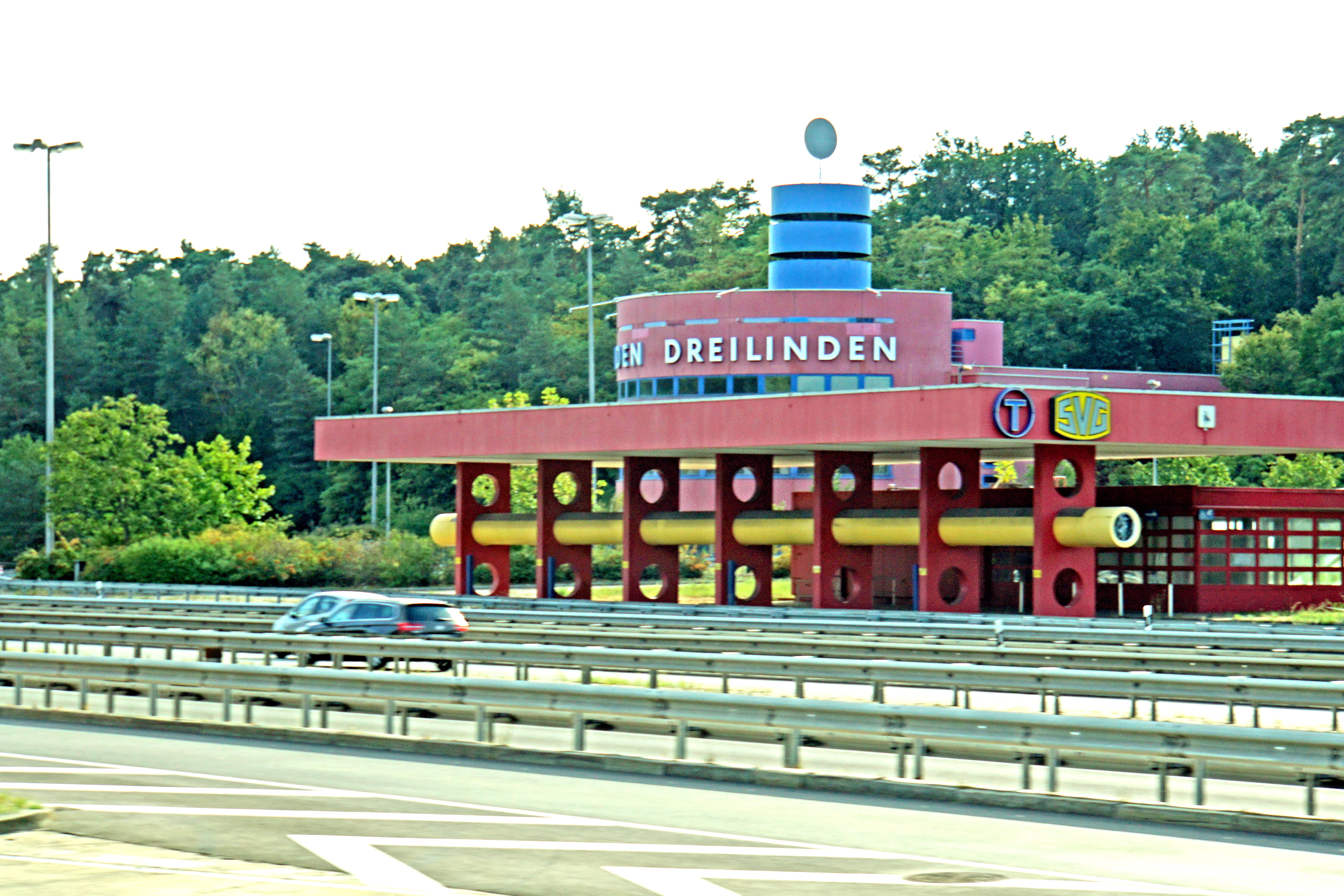 Berlin Dreilinden - Checkpoint Bravo, the main autobahn border crossing points between West Berlin and the German Democratic .Republic.